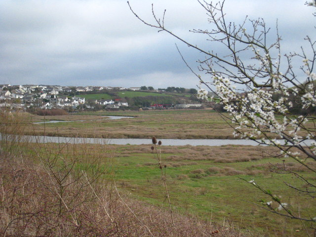 Blackthorn blossom beside the River Gannel Looking upstream towards Treninnick.